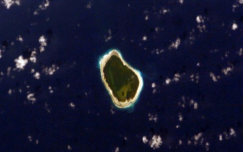 NASA astronaut image of Clipperton Island in the Pacific Ocean